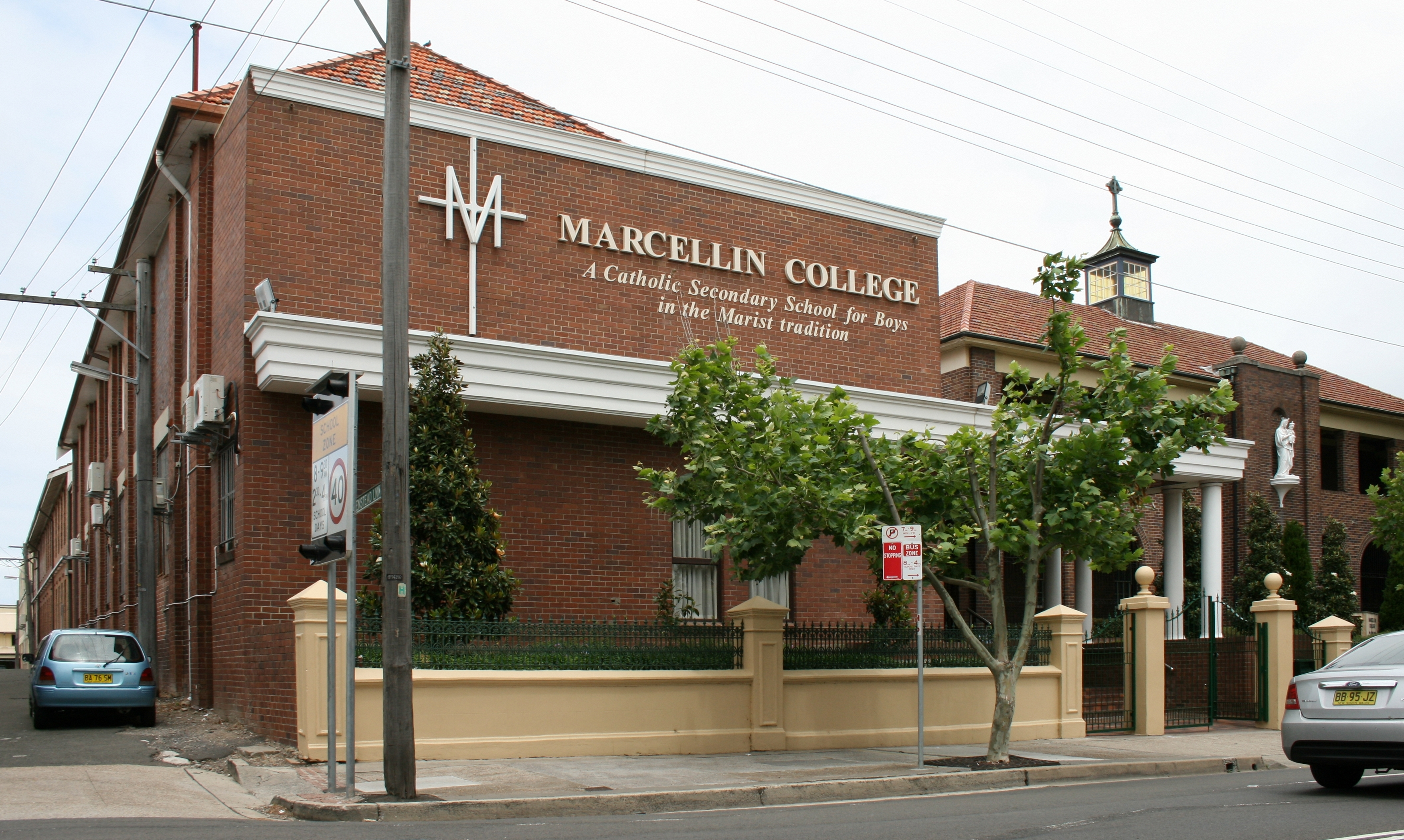 Marcellin College, Randwick, New South Wales (NSW), Australia. A Catholic Secondary School for boys in the Marist tradition.